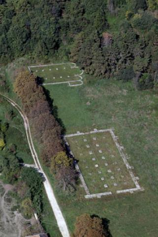 Fenékpuszta, Hungary, aerialphotography This is a photo of a monument in Hungary, Identifier: 91906